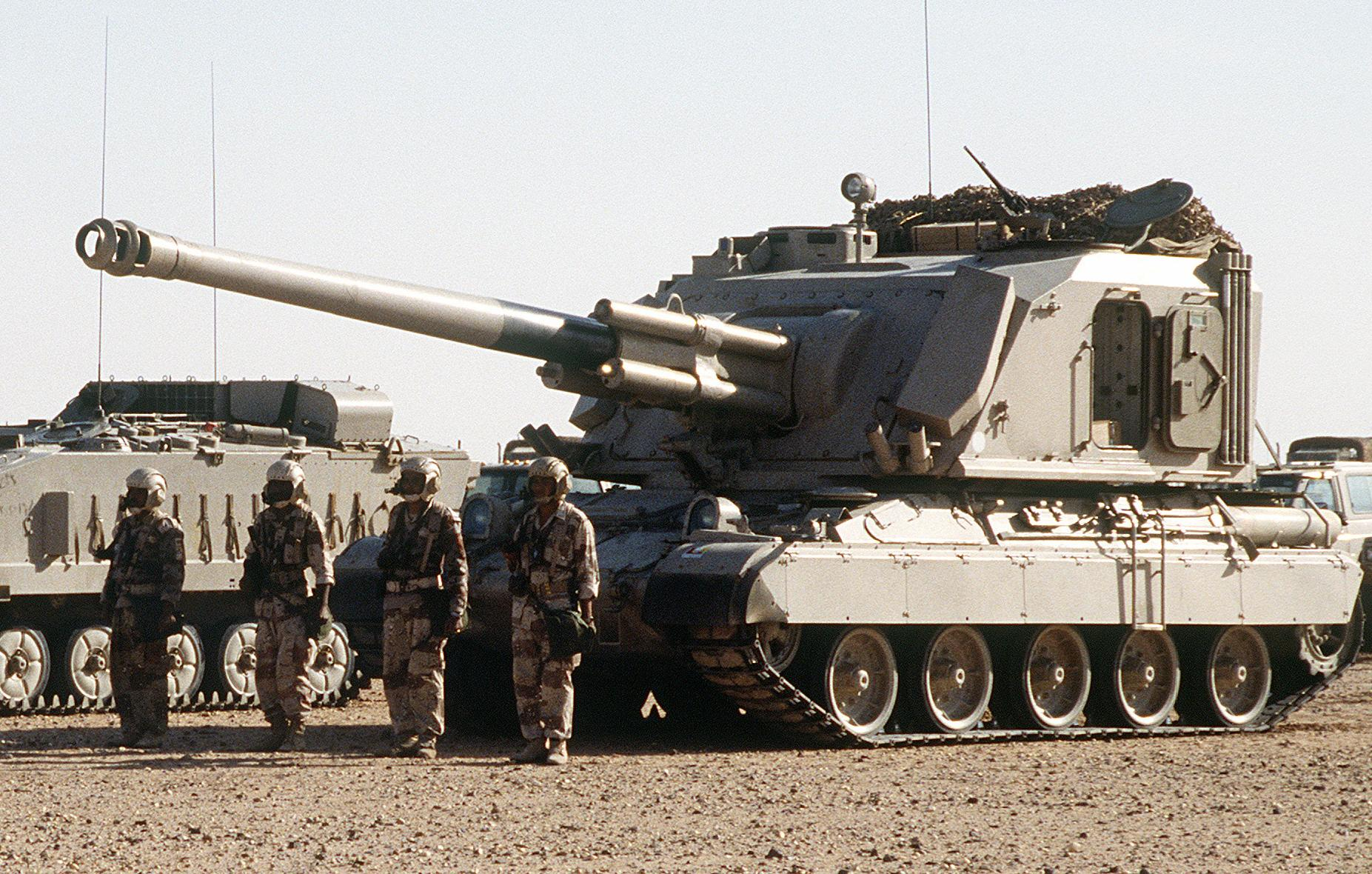 The 20th Brigade of the Royal Saudi Land Force displays a 155mm GCT self-propelled gun, left, and AMX-10P infantry combat vehicles during Operation Desert Shield.